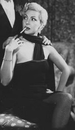 Maria del Rio- actriz